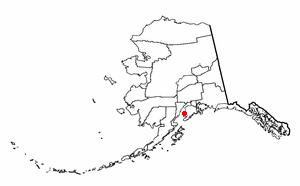 Adapted from Wikipedia's AK borough maps by Seth Ilys.